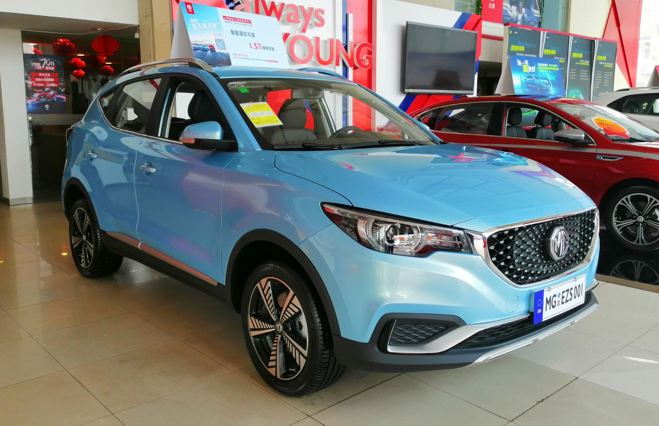 MG EZS photographed in Shanghai, China.